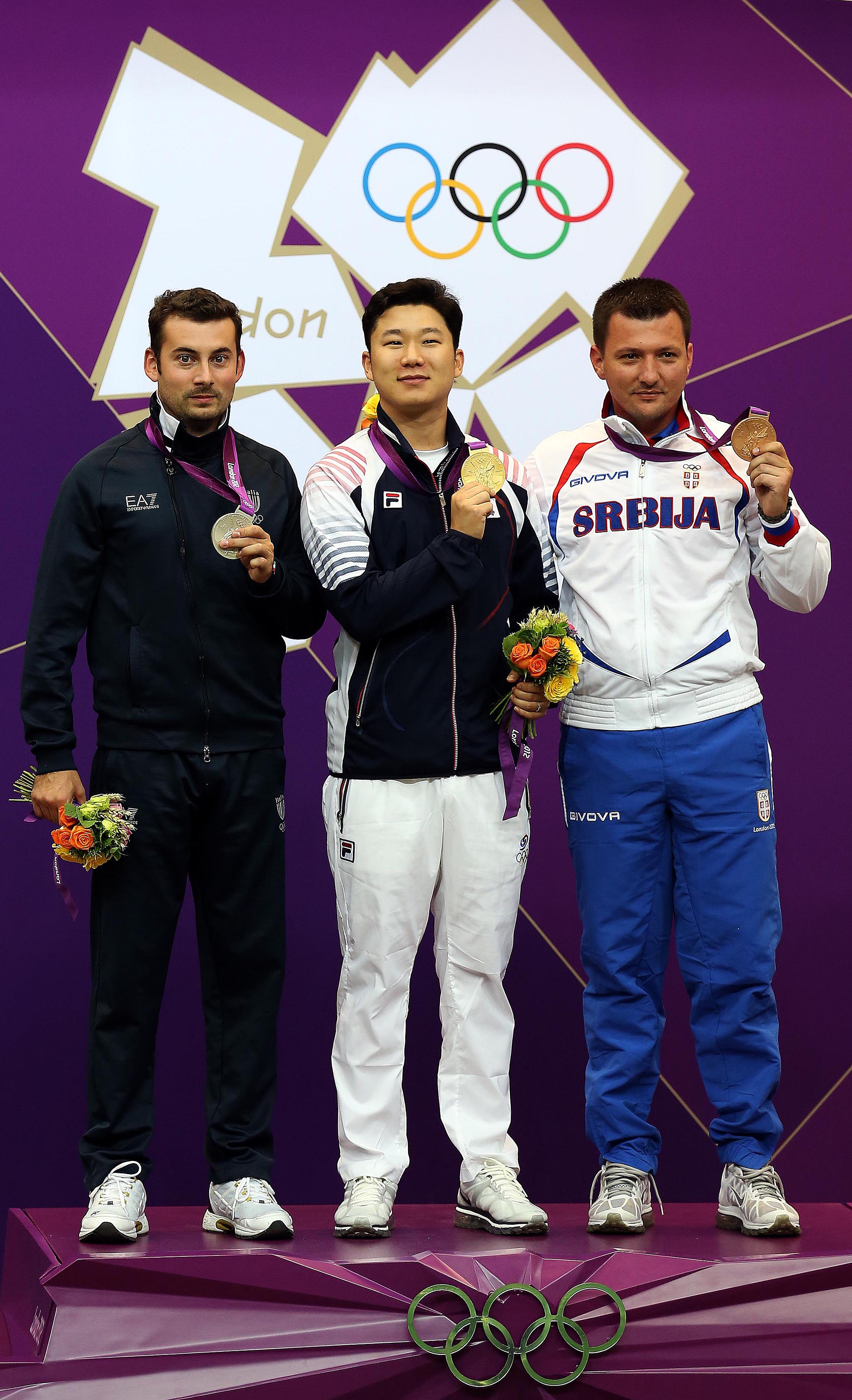 2012 London Olympic Games Korea JIN Jongoh won the gold medal Men's 10 meter air pistol final in the Olympic Games Shooting competition at the Royal Artillery Barracks. 2012.7.29. Photo by Korean Olympic Committee Ministry of Culture, Sports and Tourism Korean Culture and Information Service 2012 런던 올림픽 진종오 남자 10m 공기 권총 금메달 획득 사진제공 - 대한체육회 문화체육관광부 해외문화홍보원